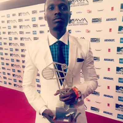 Tisan at the Mtv Mama in South Africa